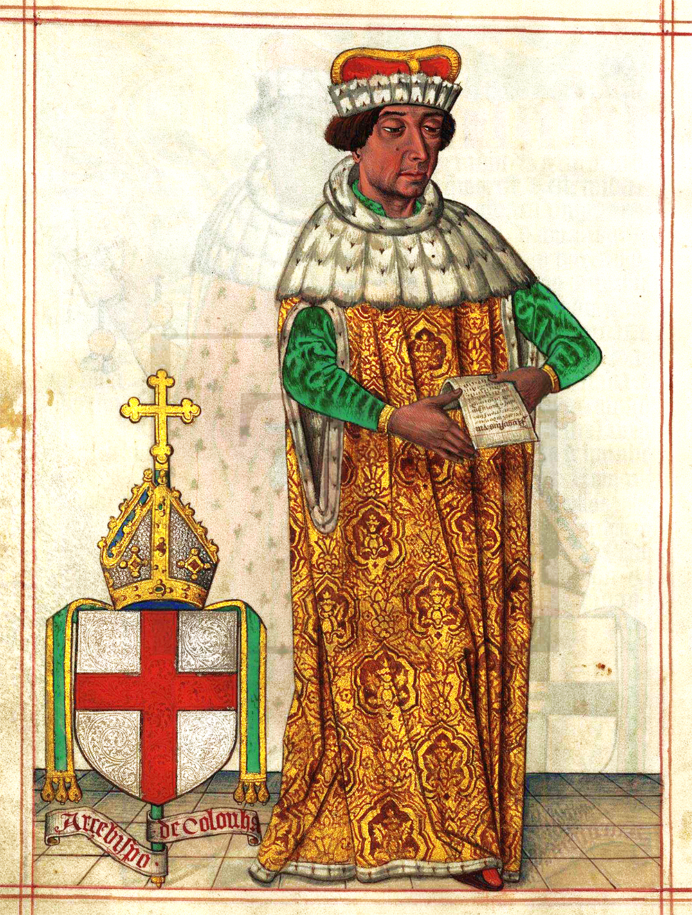 Archibishop of Cologne